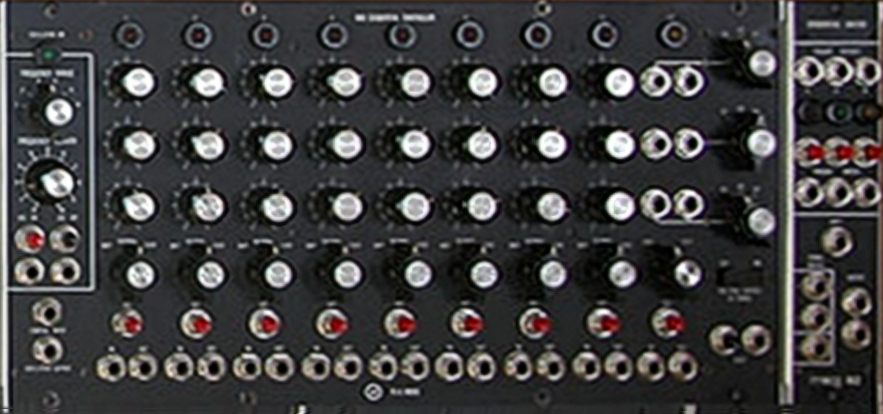 Moog 960 Sequential Controller Moog 962 Sequential Switch on Moog modular 55